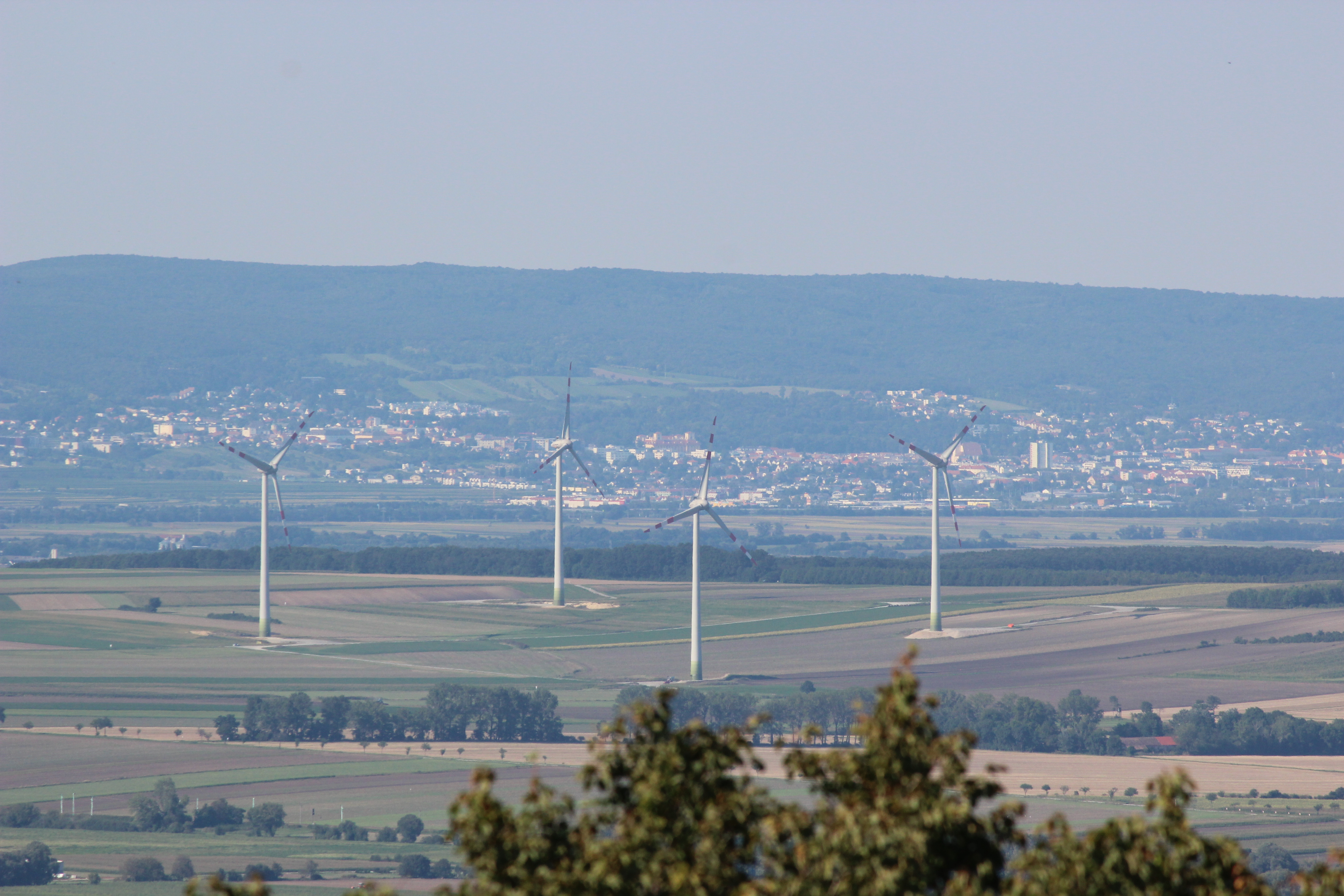 Eisenstadt (Austria) from the Várhely observation tower (Sopron, Hungary)